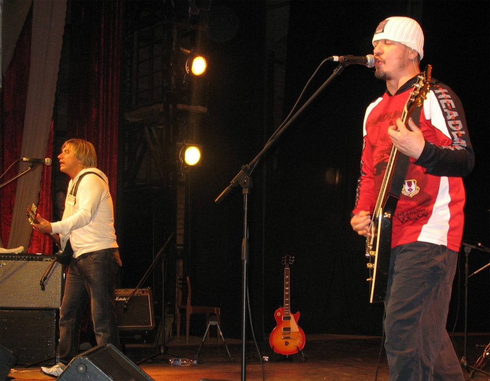 "Gorky Park" rock-group, 2006